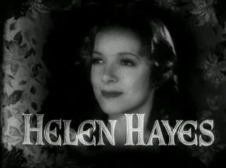 Cropped screenshot of Helen Hayes from the film Vanessa: Her Love Story